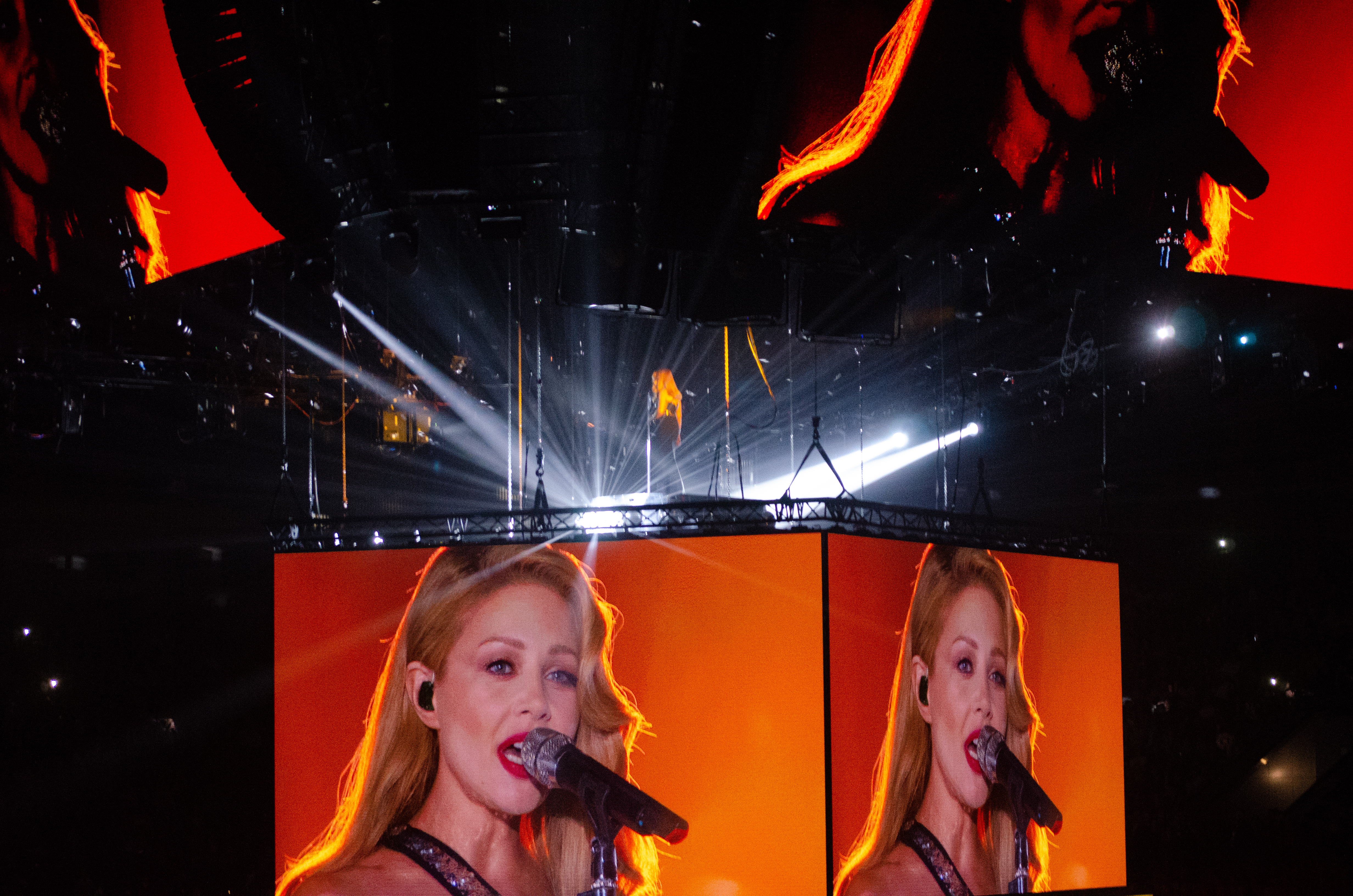 M1 Music Awards 2019, Kyiv, Palace of Sports, November 30, 2019.